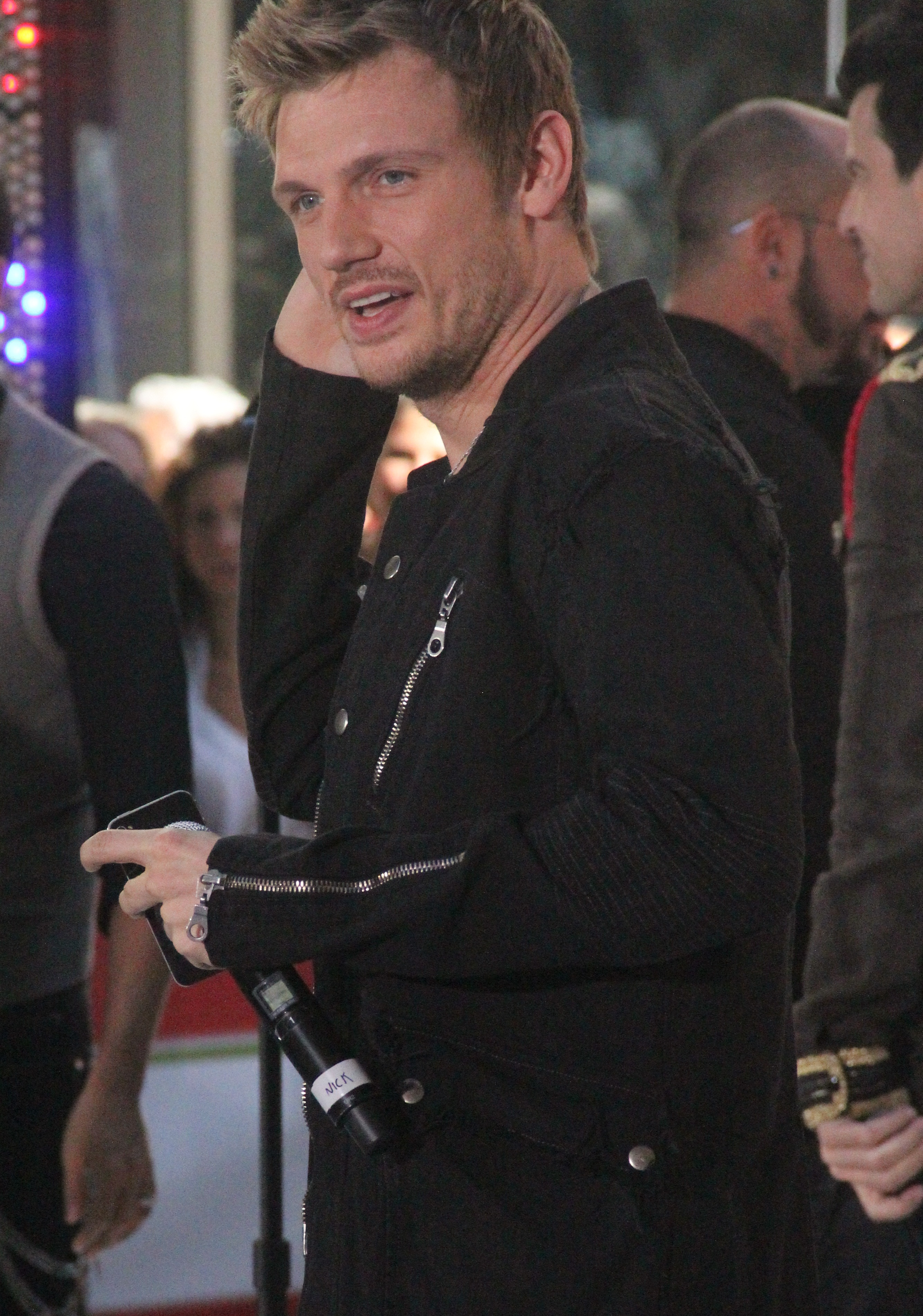 Nick Carter at the The Today Show in New York City in June 2011